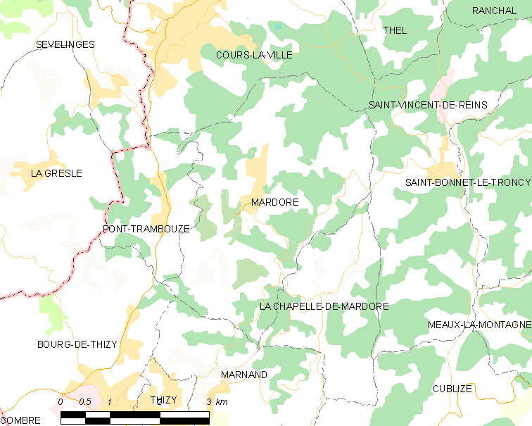 Map of French municipality